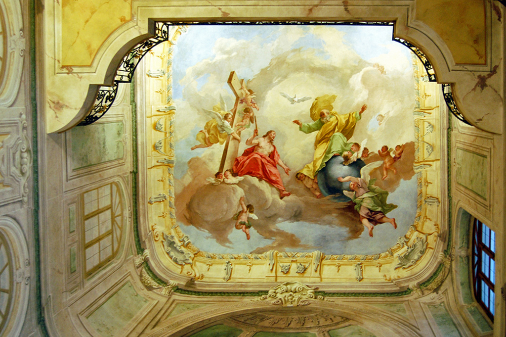 Inside Rosenberg Palace (which is also inside the castle!) This is a ceiling